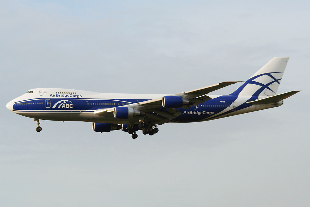 AirBridgeCargo Boeing 747-200F (VP-BIB) arrives at Moscow-Sheremetyevo Airport